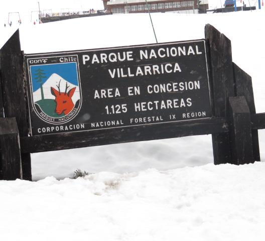 Placa de parque nacional no Chile.